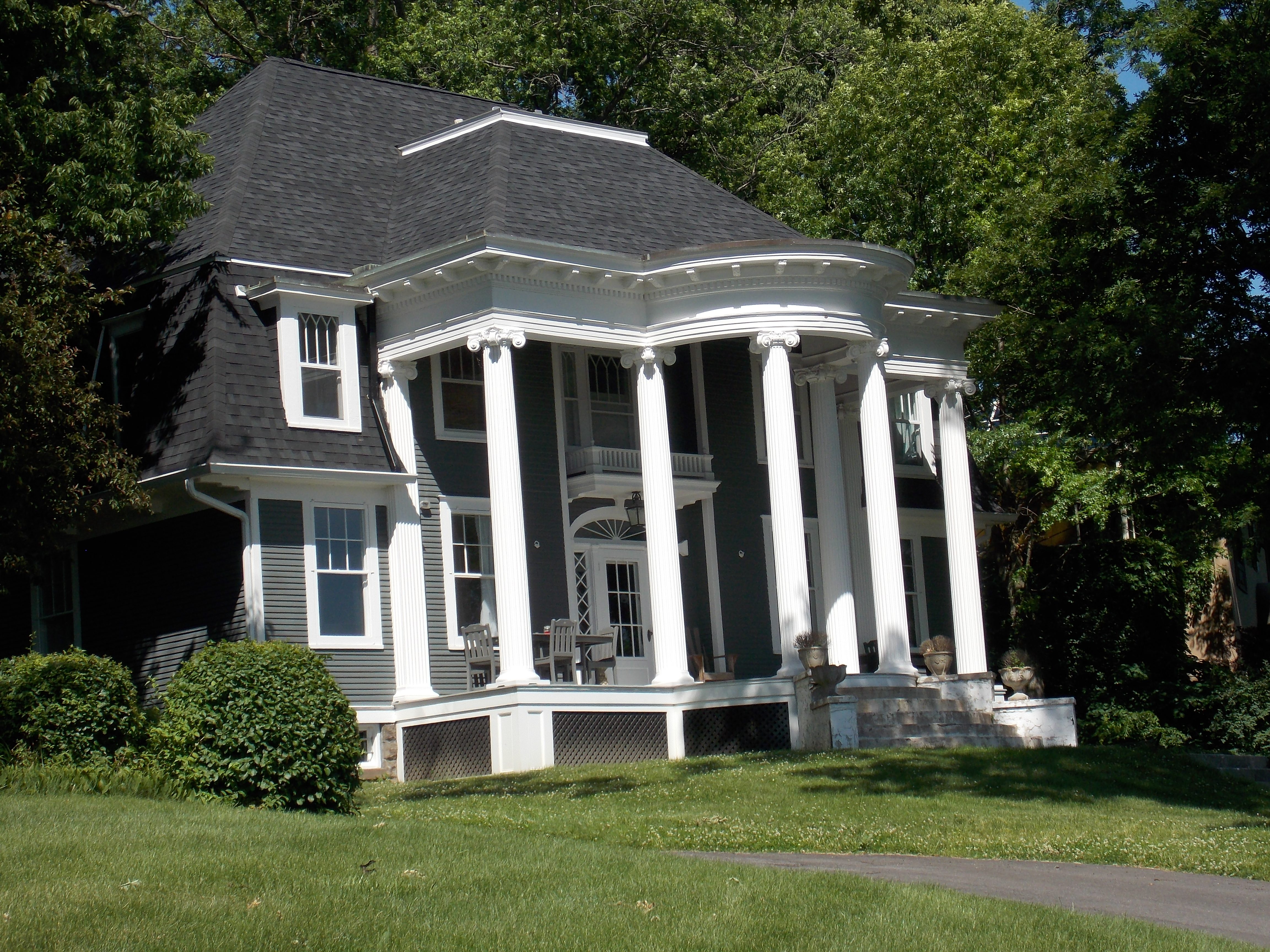 A house on River Street in the McClellan Heights neighborhood of Davenport, Iowa. It is a contributing property in the historic district.